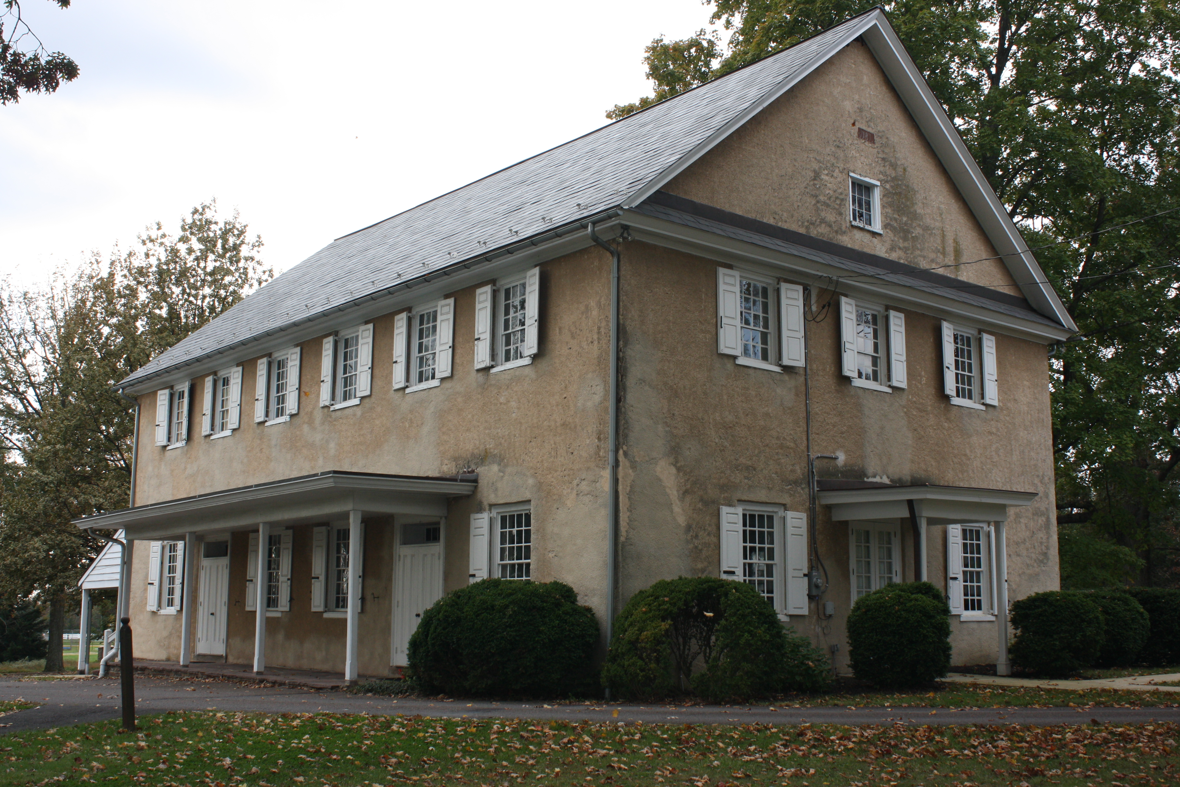 Wrightstown Friends Meeting Complex, Meeting House in Wrightstown, Pennsylvania. Object location40° 15′ 55″ N, 74° 59′ 00″ W